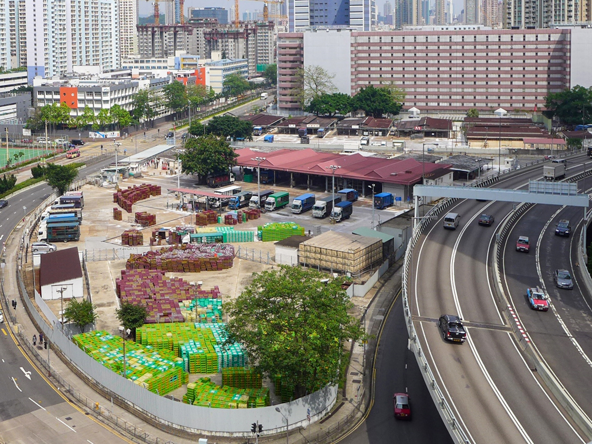 Cheung Sha Wan Temporary Poultry Market